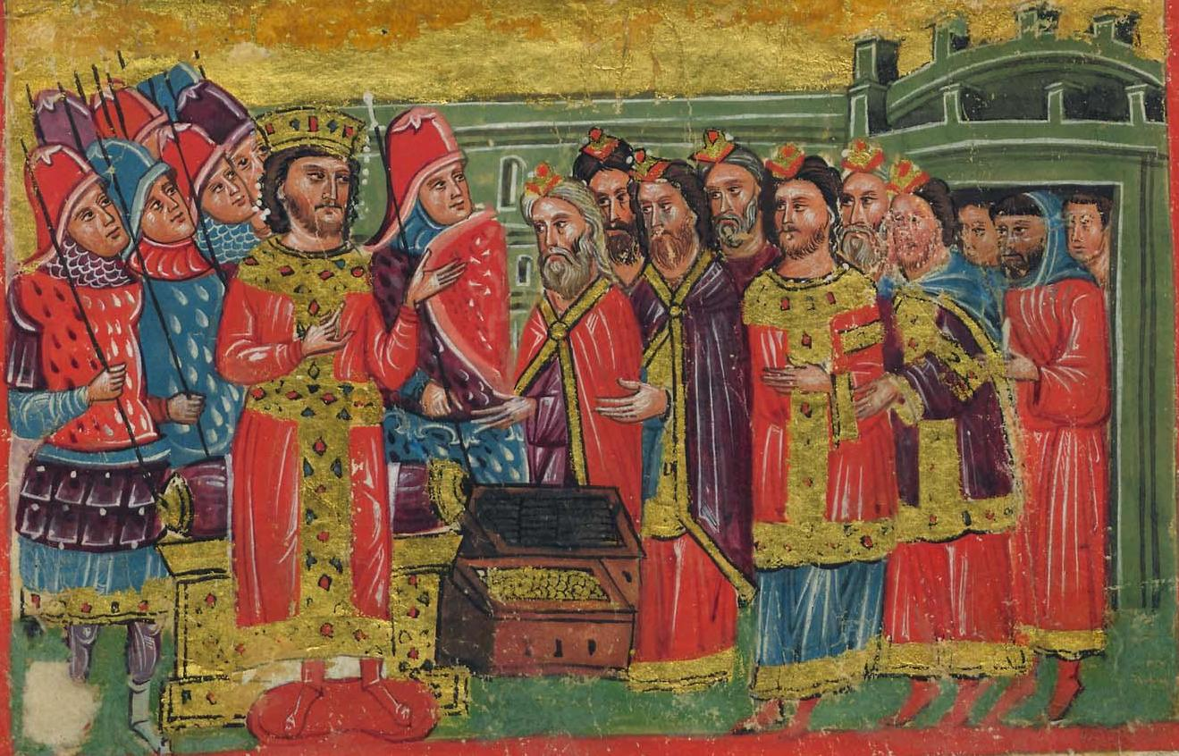 Cropped Image A fourteenth-century miniature Greek manuscript depicting scenes from the life of Alexander the Great. The priests of the Jews (Rabbis) offer Alexander the Great Gold and Silver, Alexander spent the gifts of the Rabbi’s on his Gods. The whole scene is depicted entirely in Byzantine fashion of the late Byzantine period (1204-1453). Alexander the Great is depicted as a Byzantine Emperor (Basileus) and his troops are depicted as Byzantine-Greek soldiers of the 14th century. The Jewish Rabbis (standing to the right) are shown wearing distinctive ceremonial robes and small caps on their heads. From the “Alexander Romance” in S. Giorgio dei Greci in Venice.